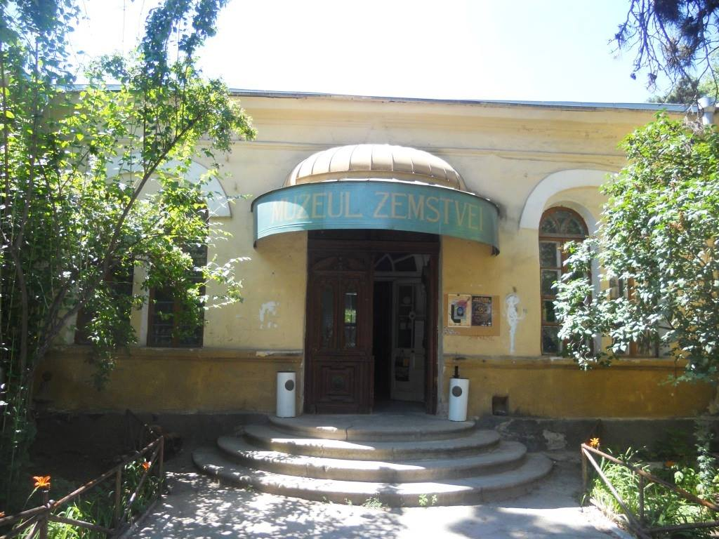 Muzeul zemstvei in Chișinău